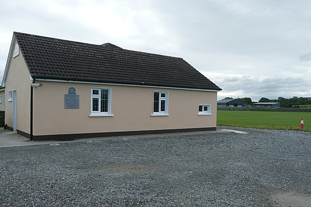 GAA pavilion at Taghmaconnell The new pavilion to the sports ground seen to its right.